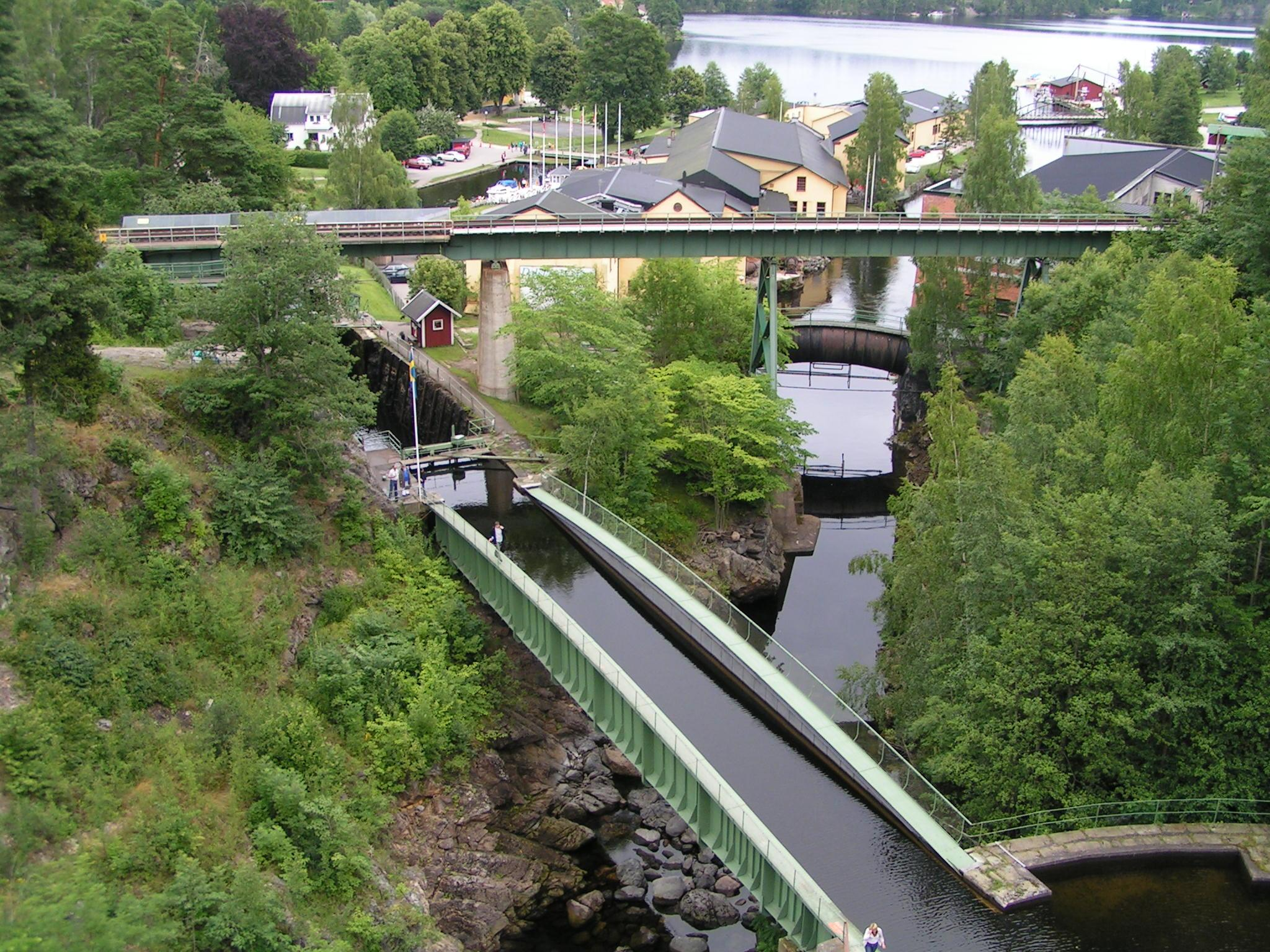 håverud in all its beauty